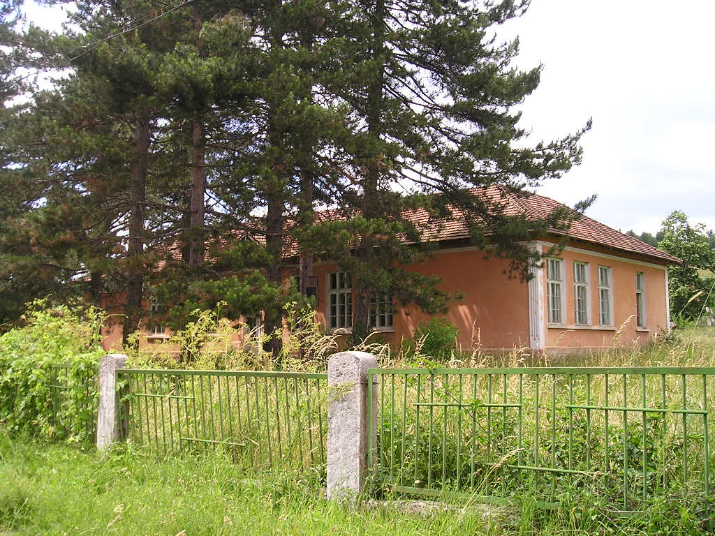 Building in village Borovitza, Vidin district, Bulgaria